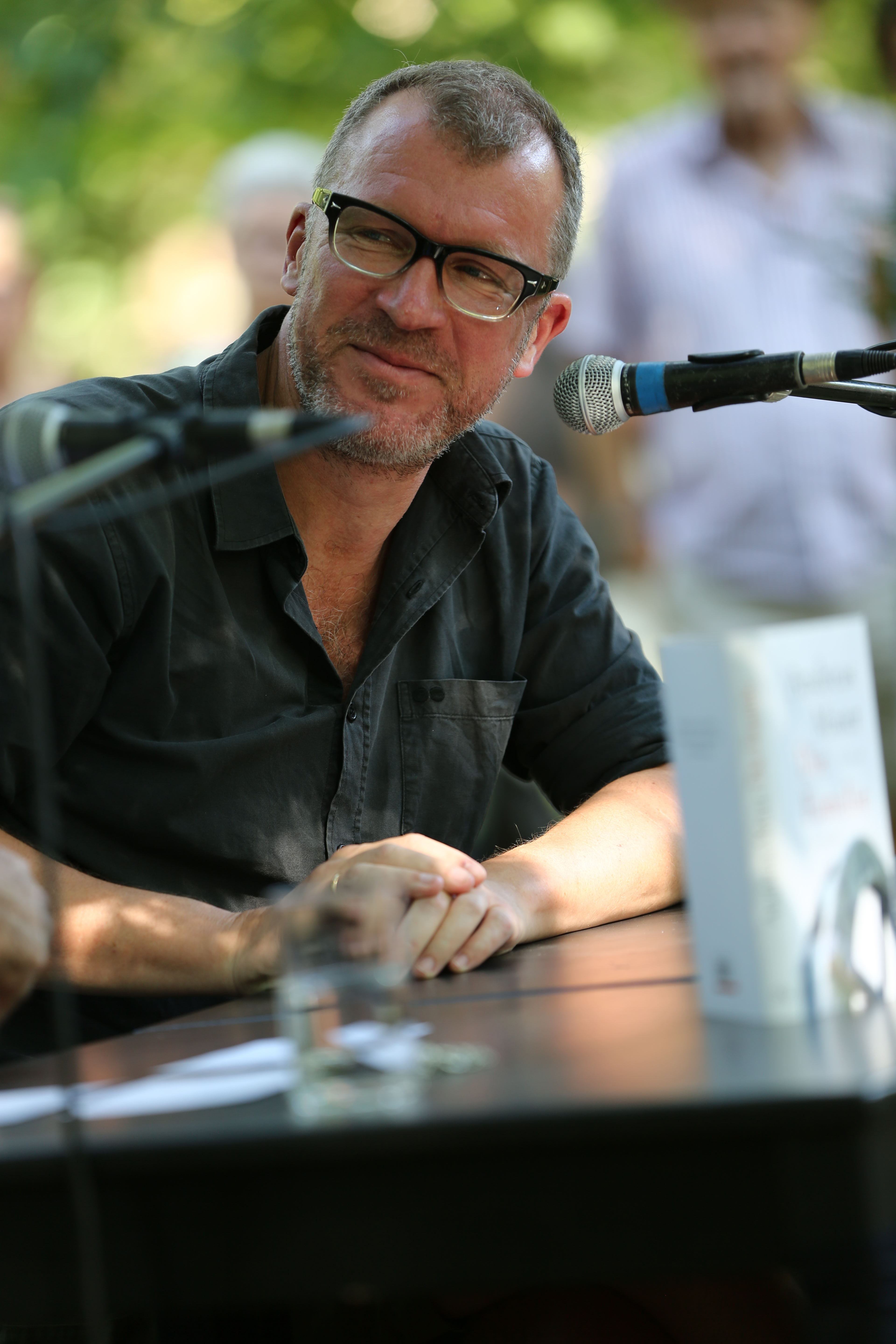 German Author Andreas Maier presents his novel "Die Familie" at literature Festival "Erlanger Poetenfest" 2019